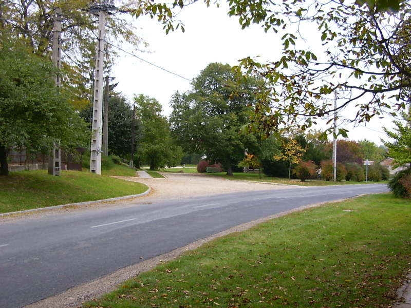 Village park Börcs